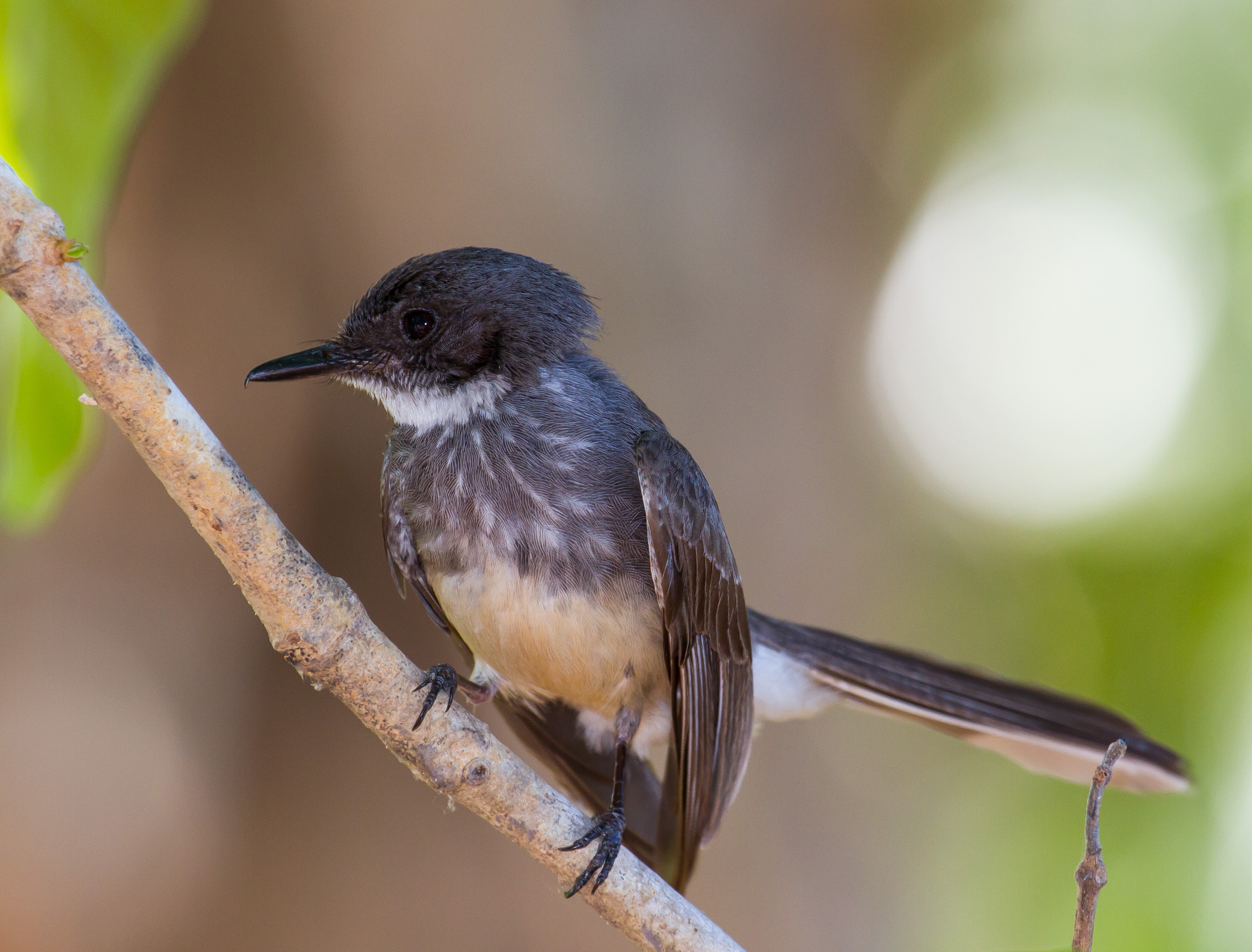 Fogg Dam, Middle Point, Northern Territory, Australia